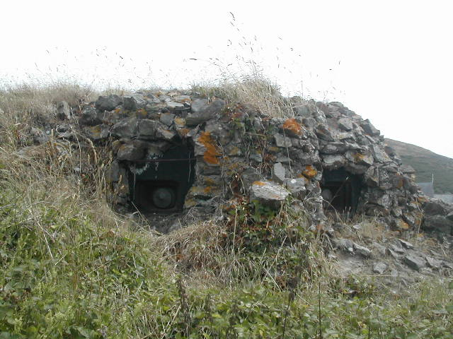 Sechsschartentürme, La Mare